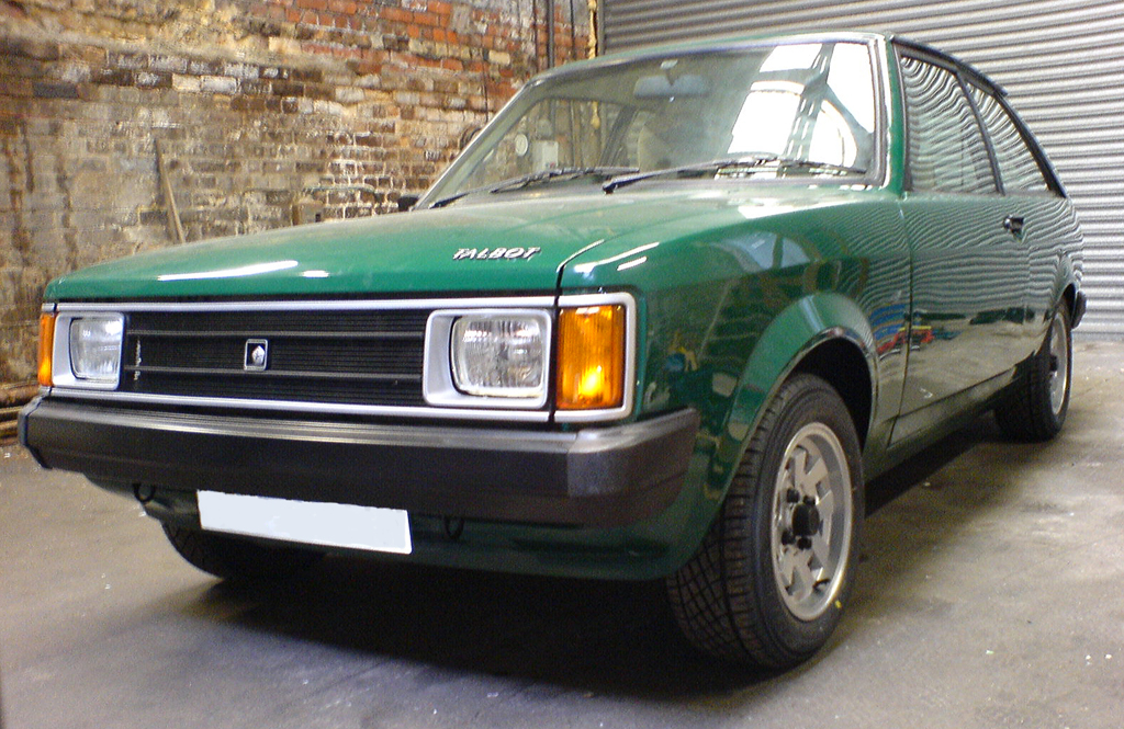 Summary A Talbot Sunbeam Lotus, formerly an undercover police vehicle in Manchester, UK. Owned and photographed by Steven Conry of the Avenger & Sunbeam Owners Club.